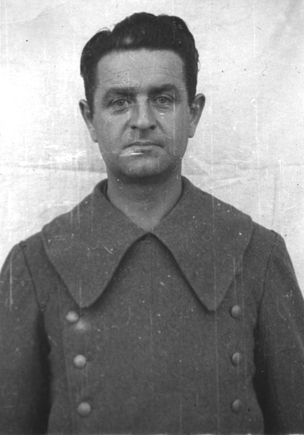 Martin Gottfried Weiß (* 3. Juni 1905 in Weiden in der Oberpfalz; † 29. Mai 1946 in Landsberg am Lech), SS-Obersturmbannführer and commandant of the concentration camps at Dachau (1942 - 1943) and Majdanek (1943 - 1944)